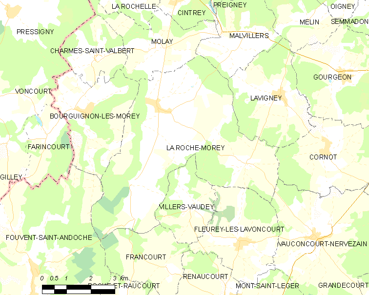 Map of French municipality